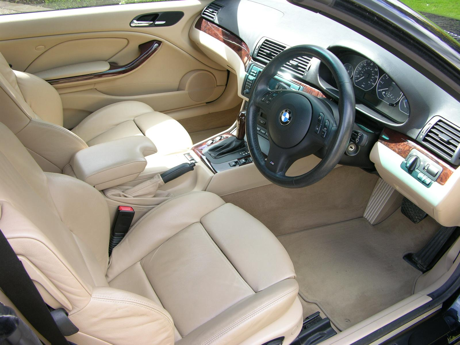 This car is for sale. Please contact us at or visit for more information.